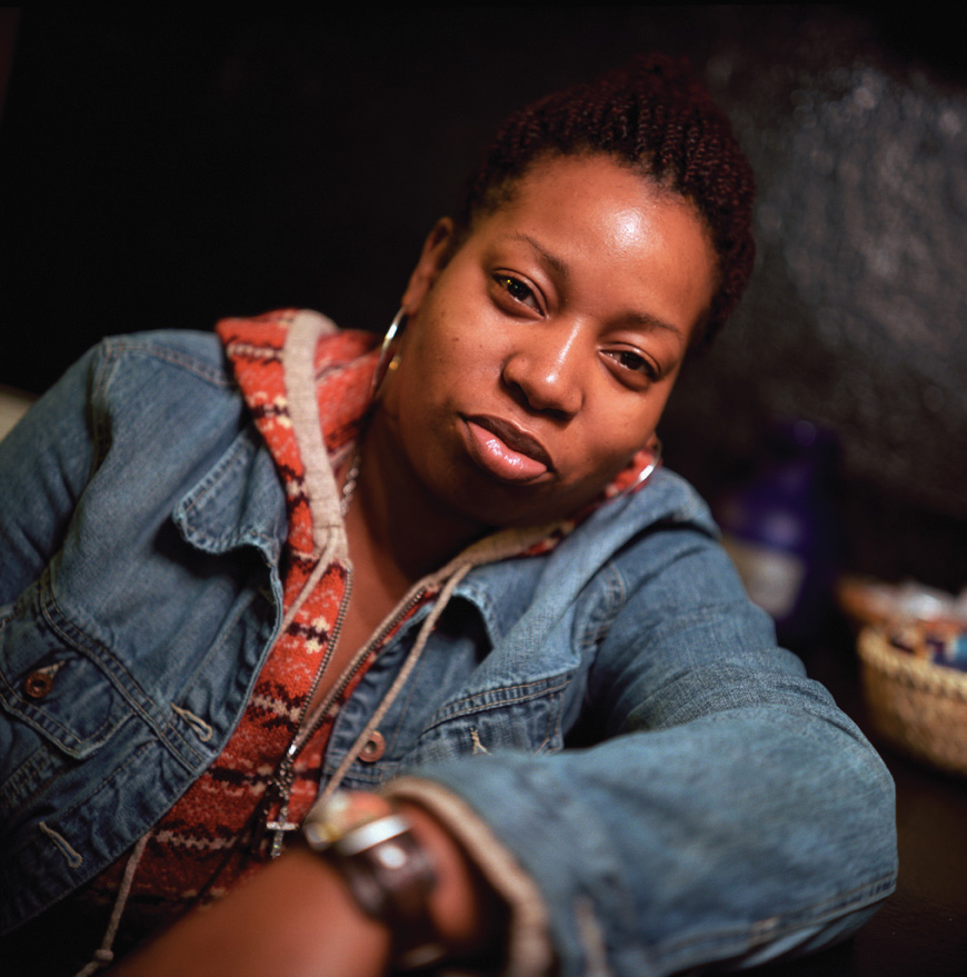 rapper Bahamadia in Hamburg/Germany 2001